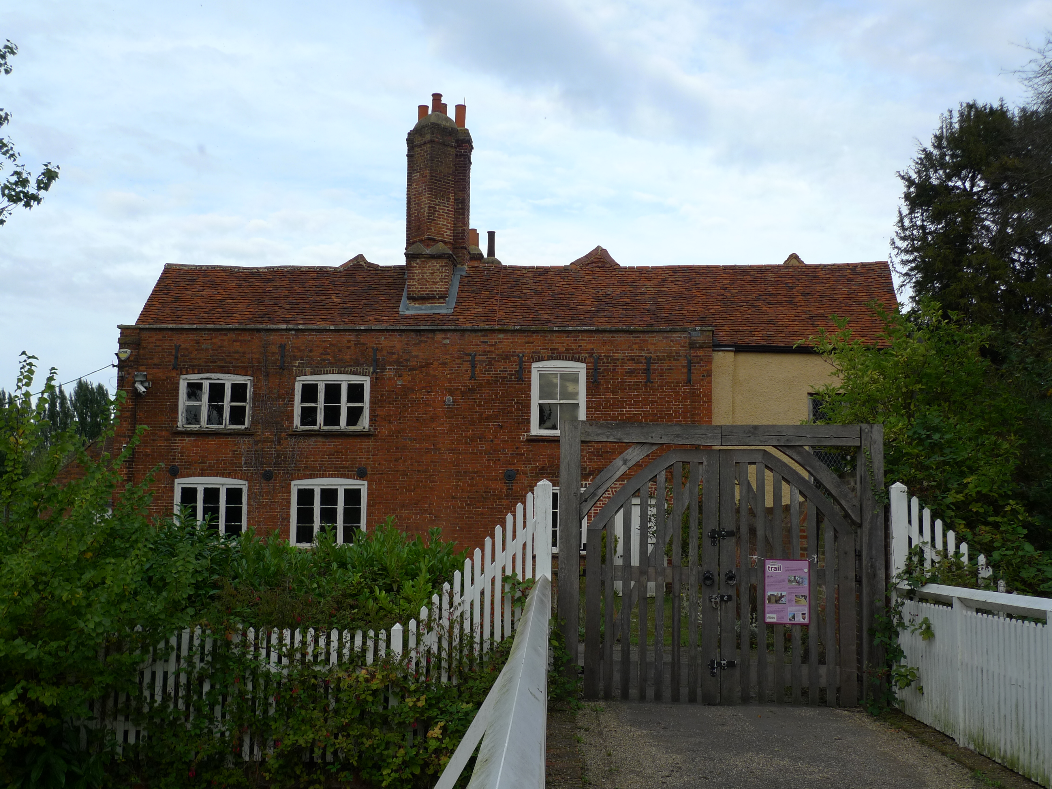 Headstone Manor